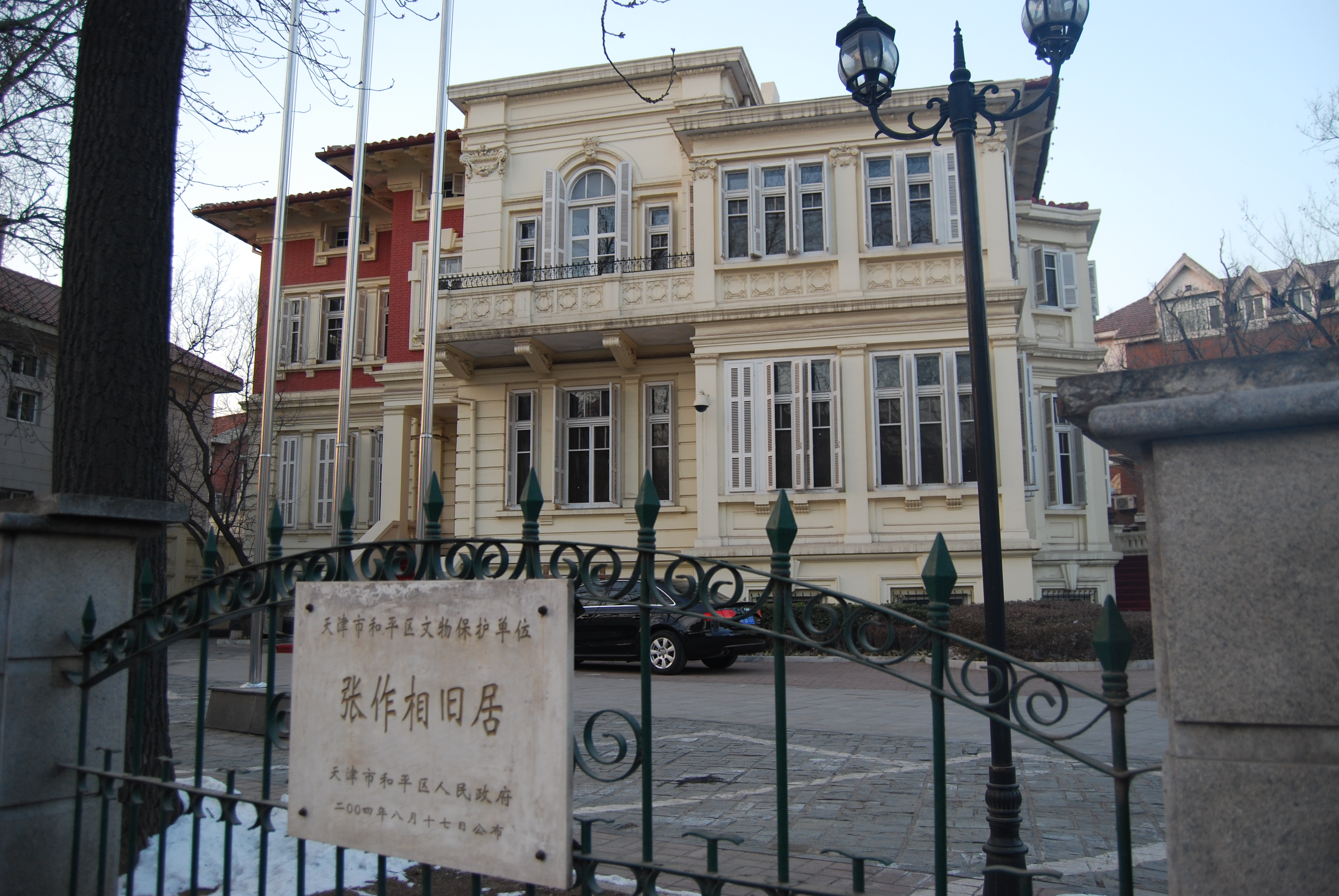 The Former Residence of Zhang ZuoXiang (张作相 1881–1949) in Chongqing Dao No. 4, Heping District, Tianjin